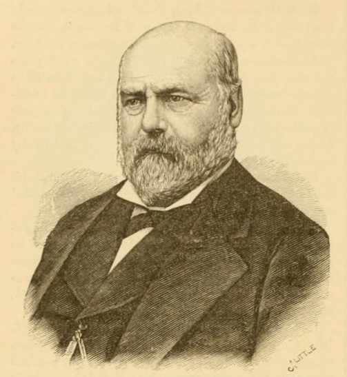 Portrait of New York assemblyman Azariah Wart